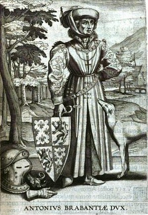 Anthony, Duke of Brabant